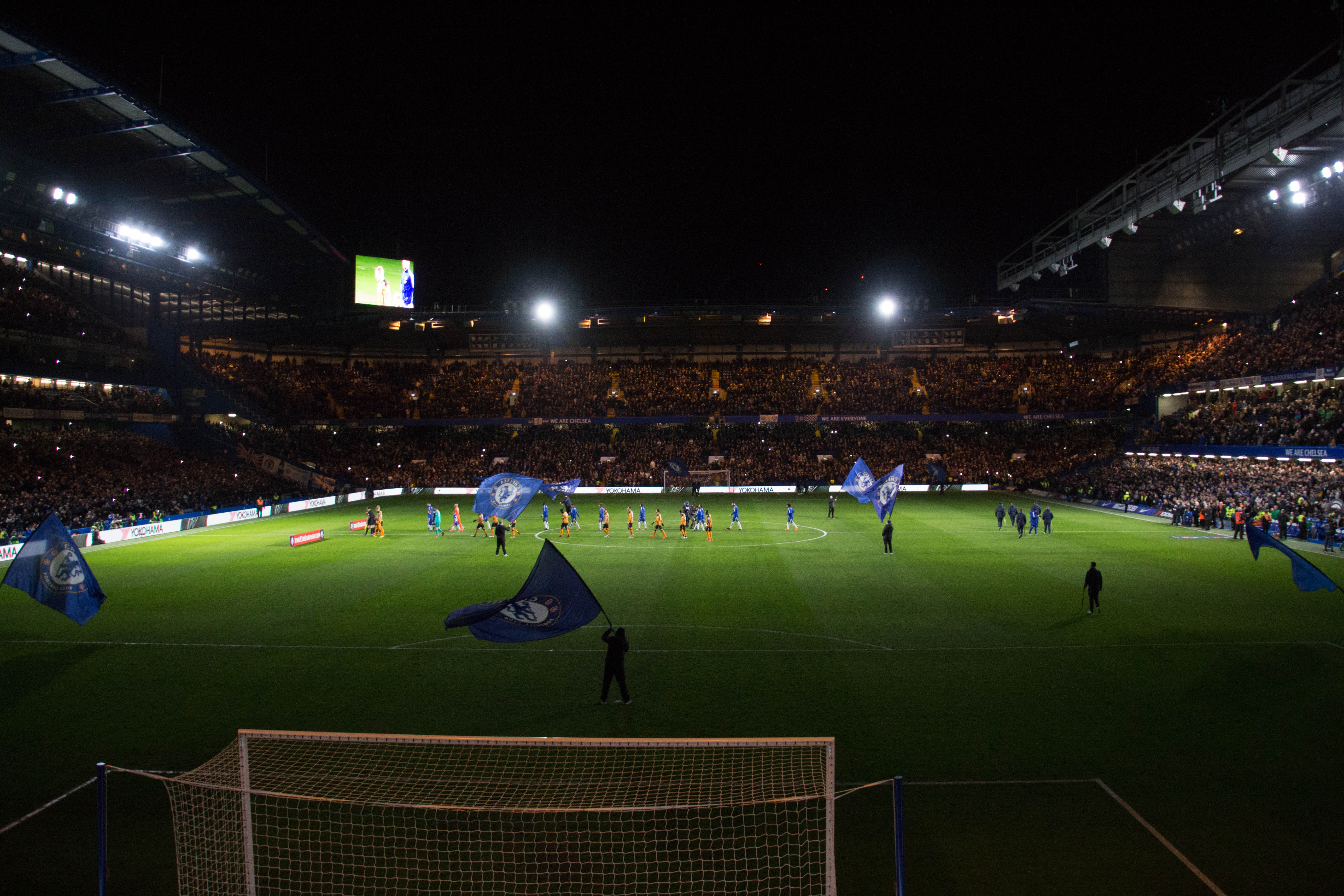 FA Cup 5th round 16.2.18